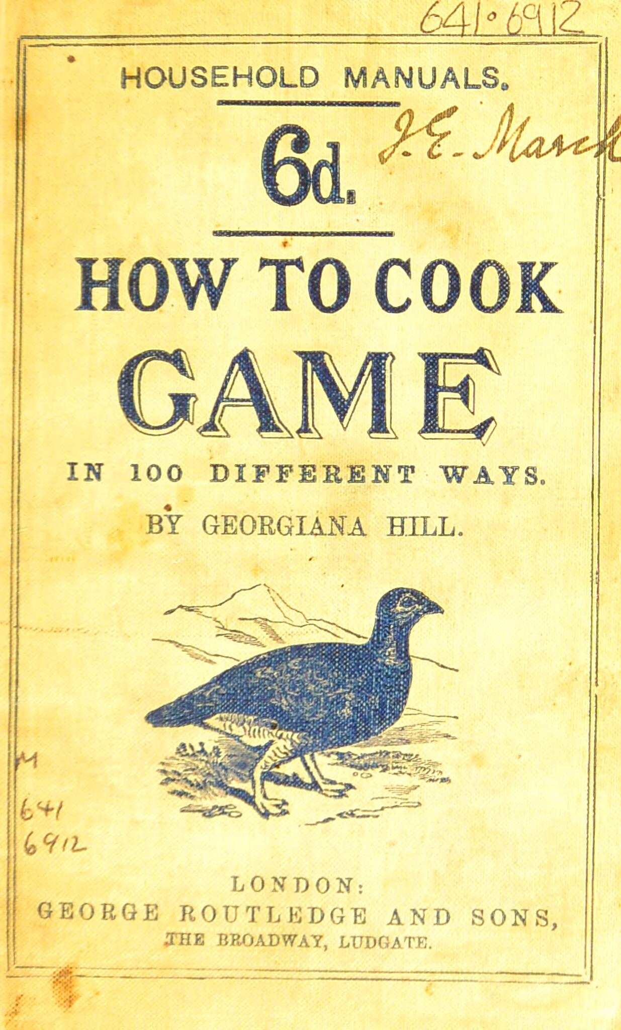 How to Cook Game (1867) Title page